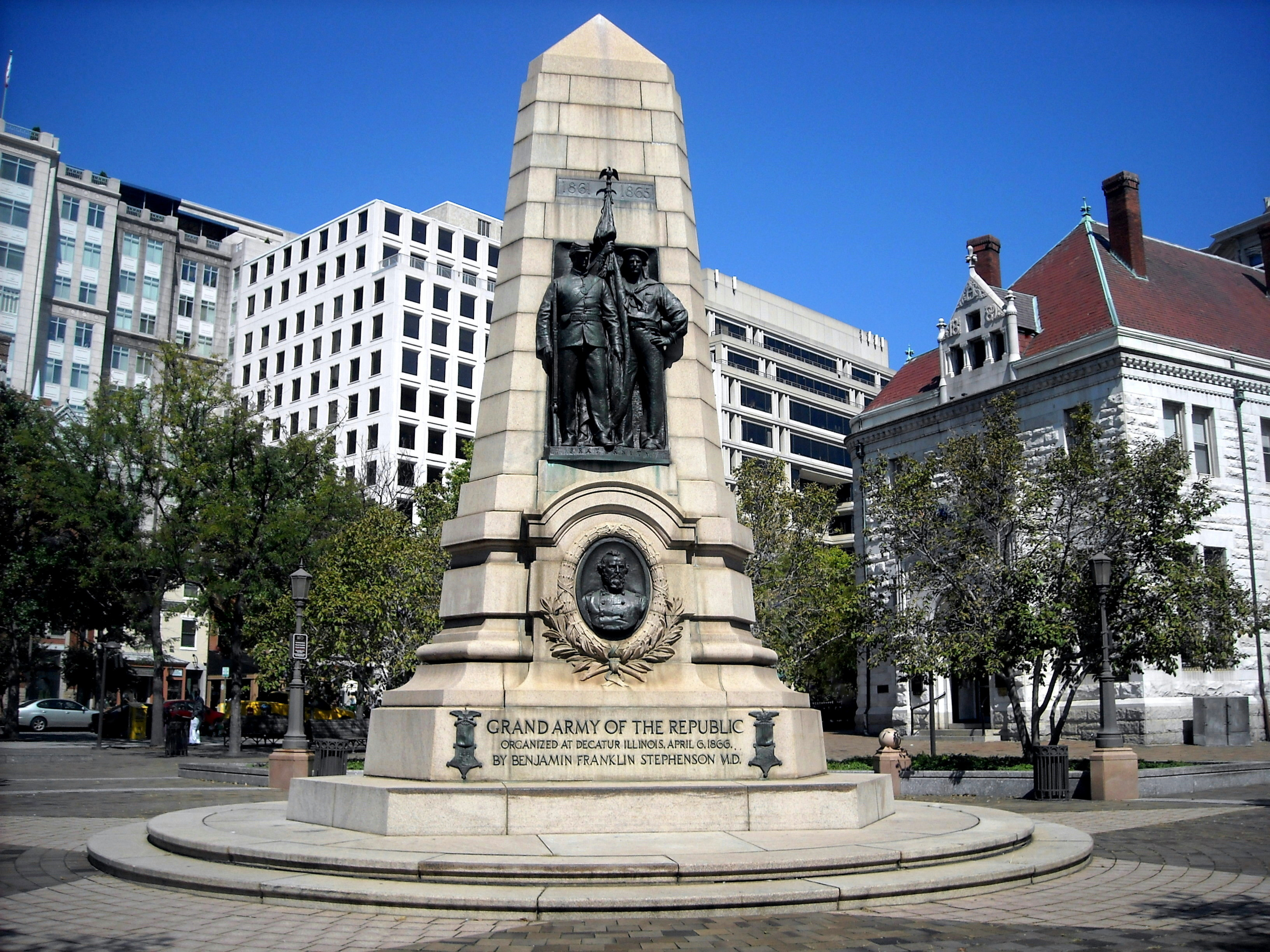 The Grand Army of the Republic Memorial (G.A.R. Memorial), also known as the Dr. Benjamin F. Stephenson Memorial, located at the intersection of 7th Street, C Street, and Pennsylvania Avenue, N.W., in the Penn Quarter neighborhood of Washington, D.C. The former National Bank of Washington is visible on the right-hand side. Sculpted by John Massey Rhind, and dedicated on July 3, 1909, the bronze sculpture honors Benjamin F. Stephenson, M.D., founder of the Grand Army of the Republic (G.A.R.). The G.A.R. Memorial is one of seventeen Civil War monuments in Washington, D.C., that were collectively listed on the National Register of Historic Places (NRHP) on September 20, 1978. In addition, the G.A.R. Memorial is designated as a contributing property to the Pennsylvania Avenue National Historic Site, listed on the NRHP on October 15, 1966, and the Downtown Historic District, listed on the NRHP on September 22, 2001.